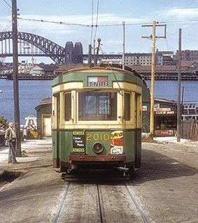 Darling Street Wharf 1950s